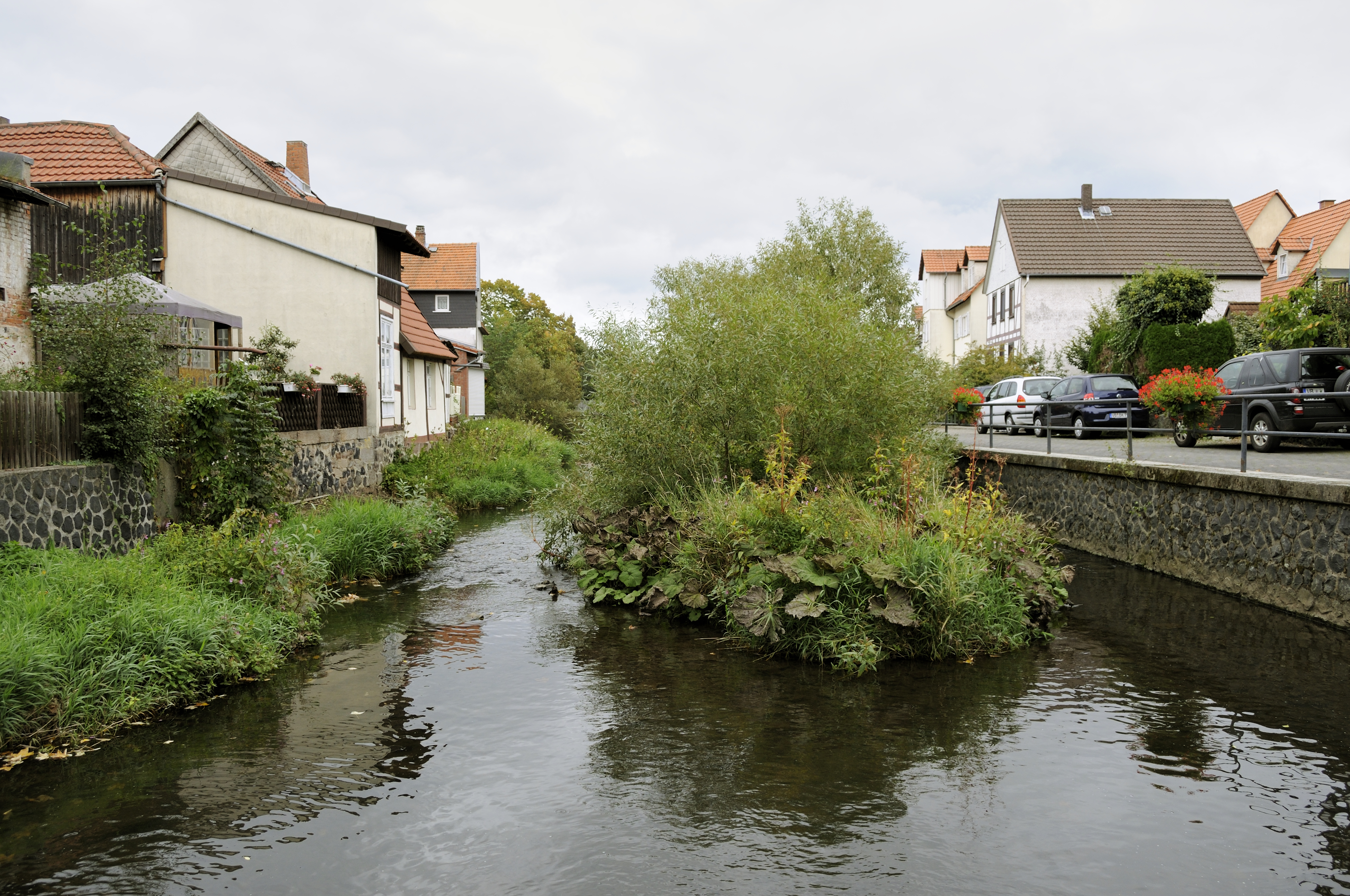 Picture taken for Wikipedia:Wiki Loves Monuments Mittelhessen.